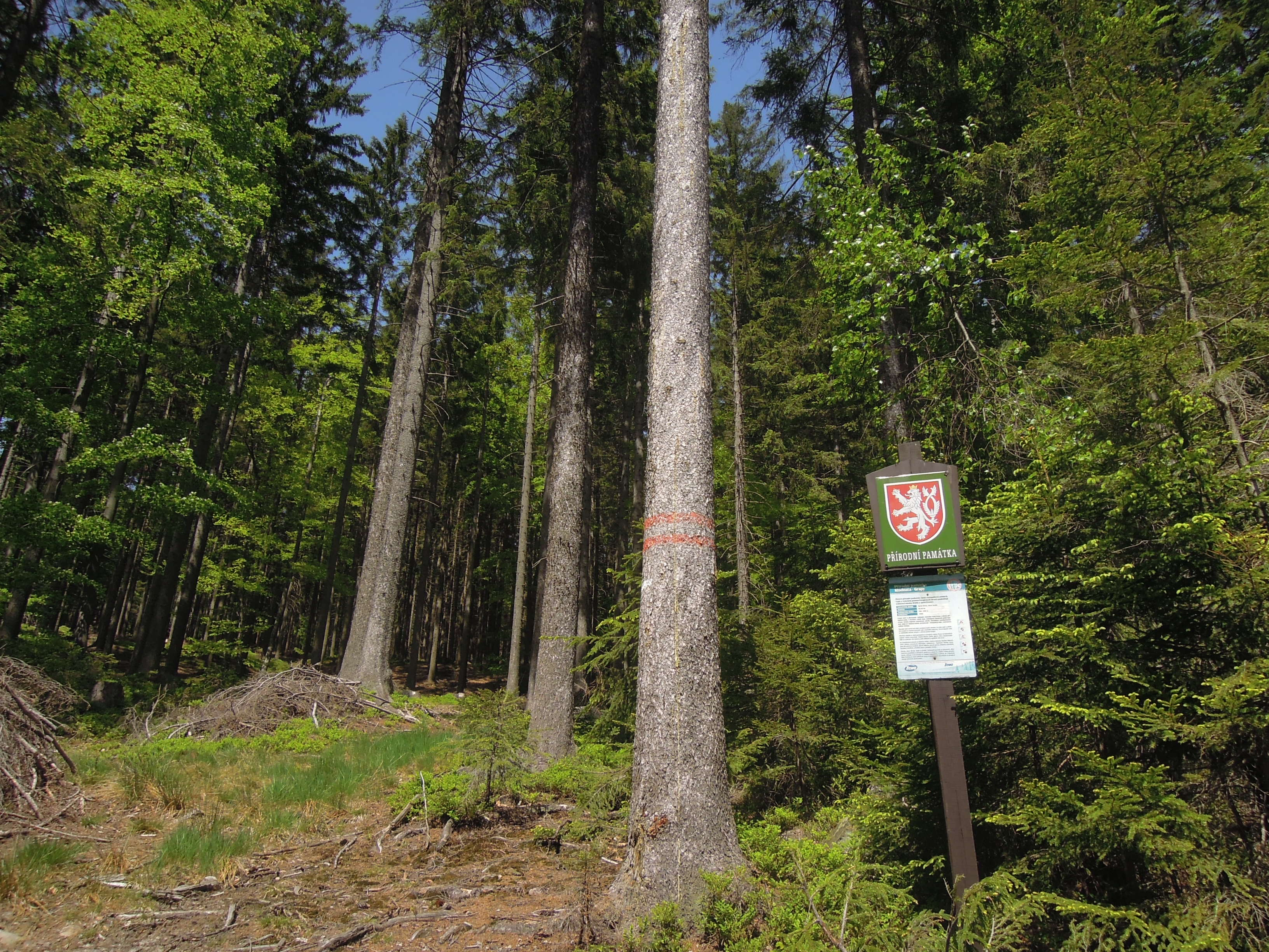 Kladnatá - Grapy natural monument in Horní Bečva, Vsetín District, Zlín Region, Czech Republic